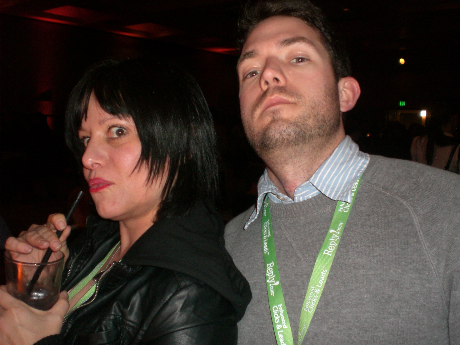 Jennifer "Precious" Finch, Jeff from Linkshare